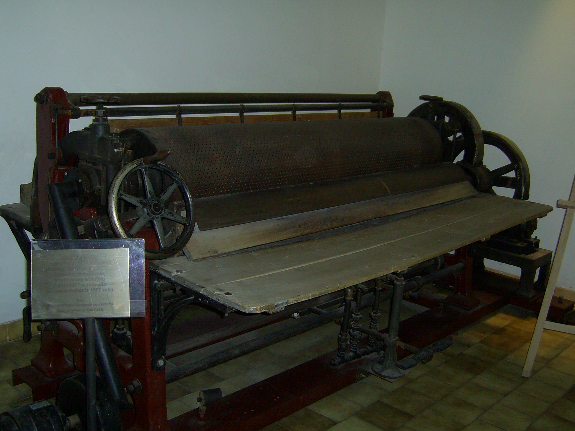 Muzeum Gazownictwa in Warsaw - picture from inside of the museum